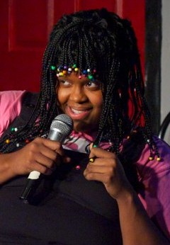 Overload the Machine is a monthly comedy show at The People's Improv Theater in New York City, featuring some of the best comedians performing as characters.See more at